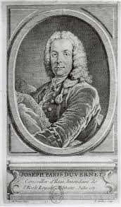 Joseph Paris-Duverney(1684-1770) was a French banker.